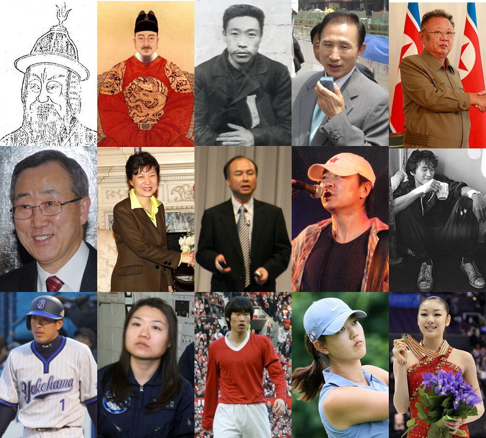 The collage of photos of 15 people of Korean people(including Koryo-saram, American Korean, Chinese Korean, Zainichi Korean) descent by order of birth 1st row: Eulji Mundeok - Sejong the Great - An Jung-geun - Lee Myung-bak - Kim Jong-il 2nd row: Ban Ki-moon - Park Geun-hye - Masayoshi Son - Cui Jian - Viktor Tsoi 3rd row: Tatsuhiko Kinjoh - Yi So-Yeon - Park Ji-Sung - Michelle Wie - Kim Yu-Na